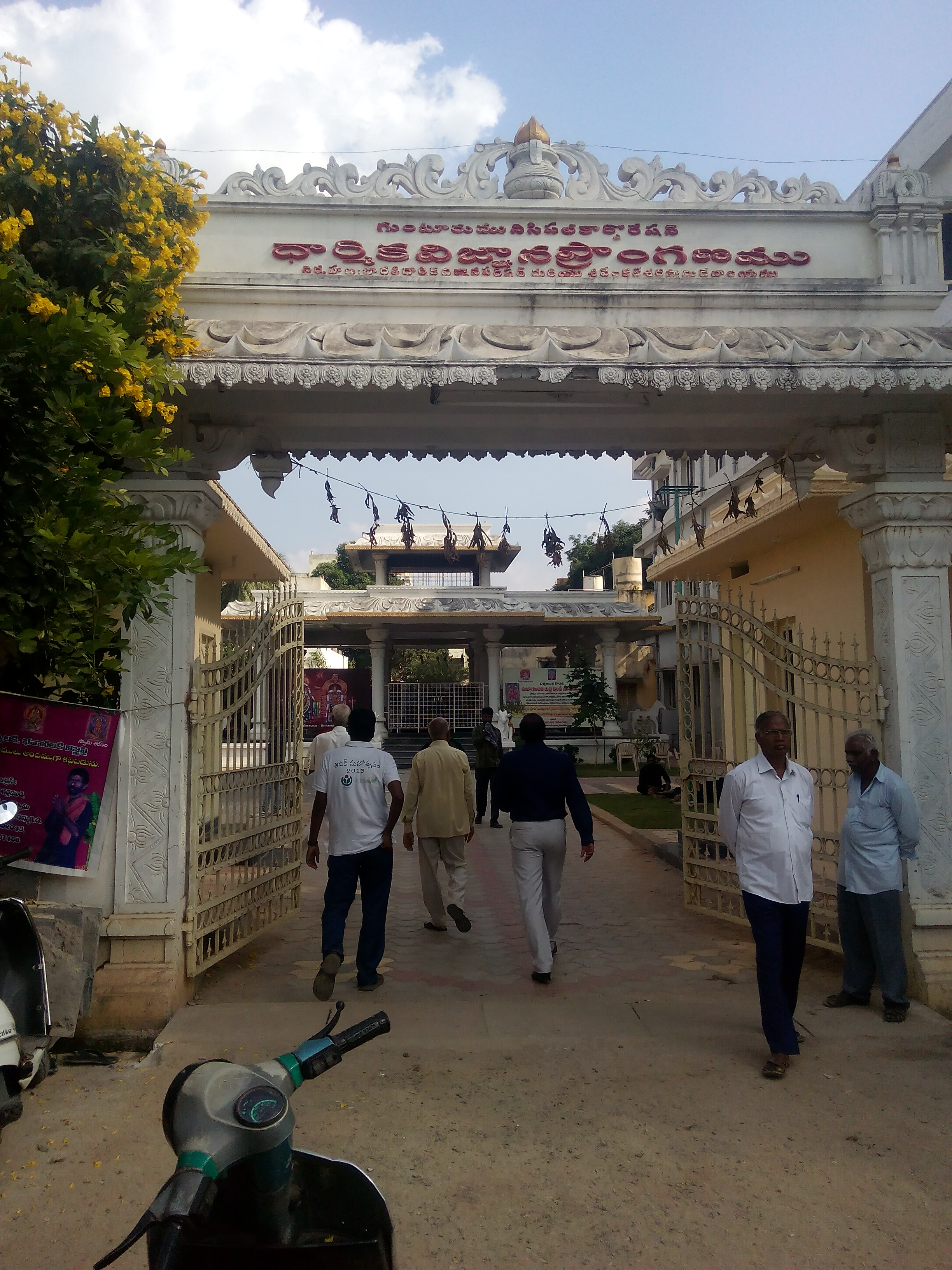 Annamayya Library - Guntur - A.P -1